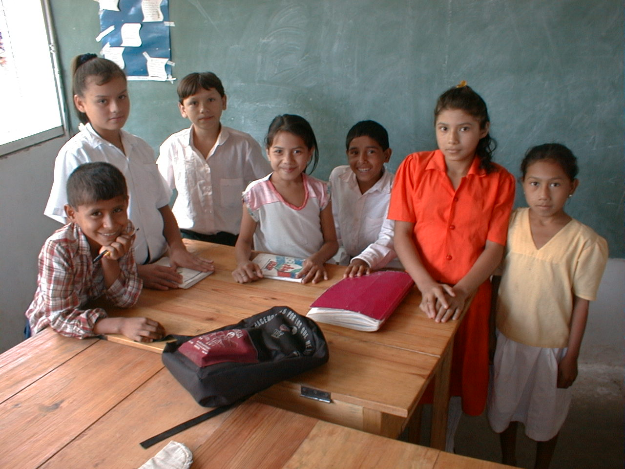 7 students by blackboard in new class room provided by the ' Village' project. Camera Info: OLYMPUS SR83 Digital F-stop 2.8 Exposure 1/32 Create date: 1999:09:02 10:12:20 Contact creator at - Page also was a link called "San Ramon, Choluteca Honduras: 1999 first ' Village'" to access the full WEB collection.